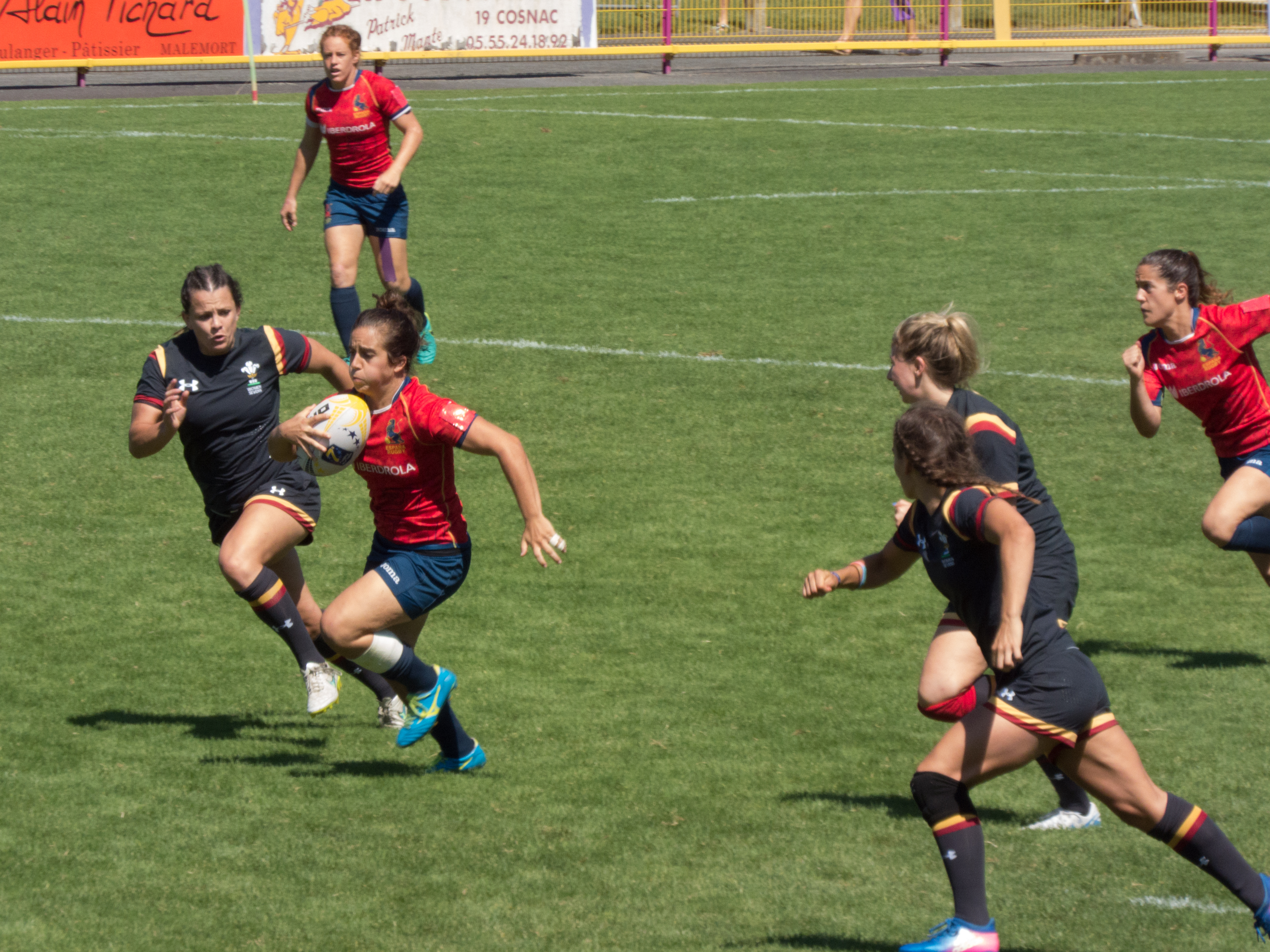 Malemort Sevens 2017 — 18 June 2017, stade Raymond-Faucher. Match between: Wales — Spain